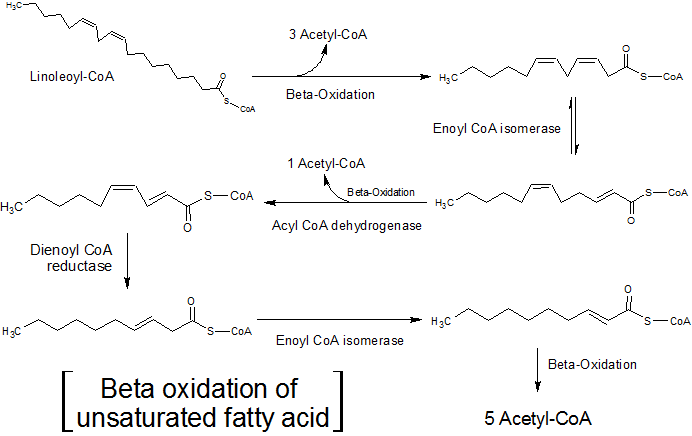 This describes how unsaturated fatty acids are divided in Beta oxidation.